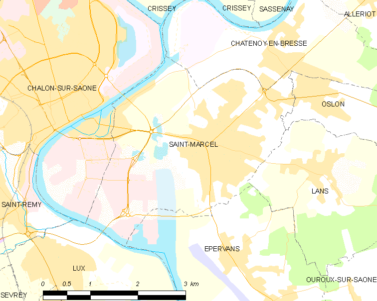 Map of French municipality